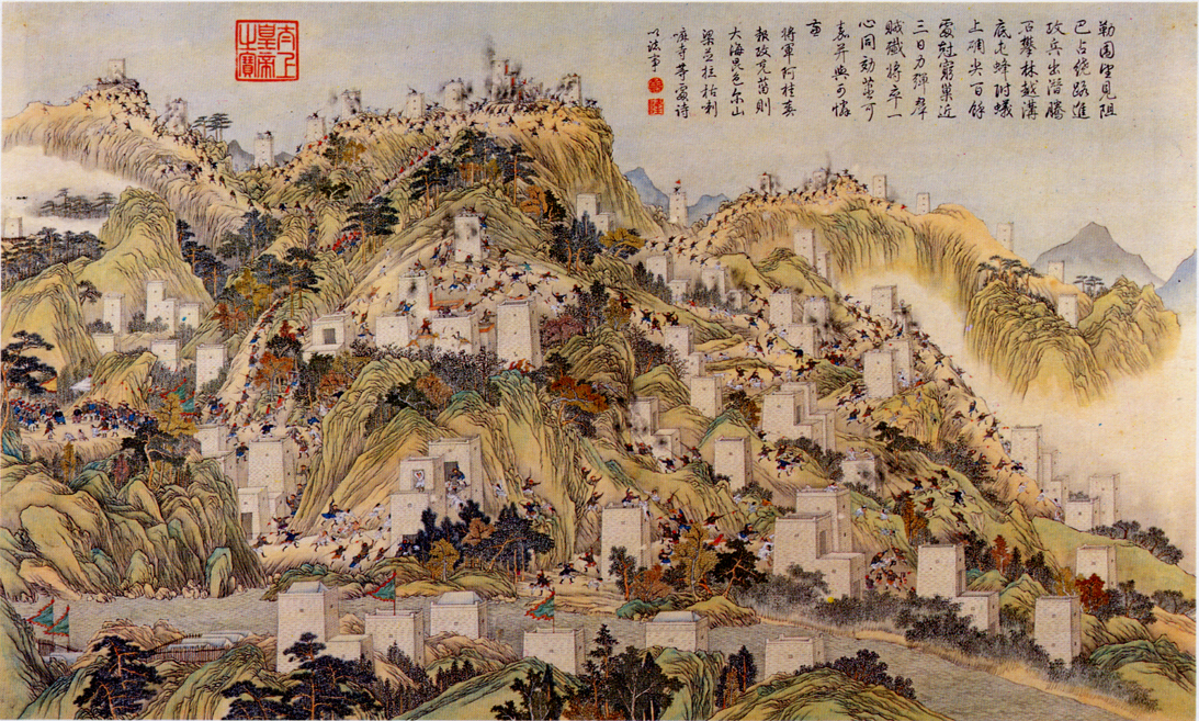 A scene of the Jinchuan Campaign 1771-1776